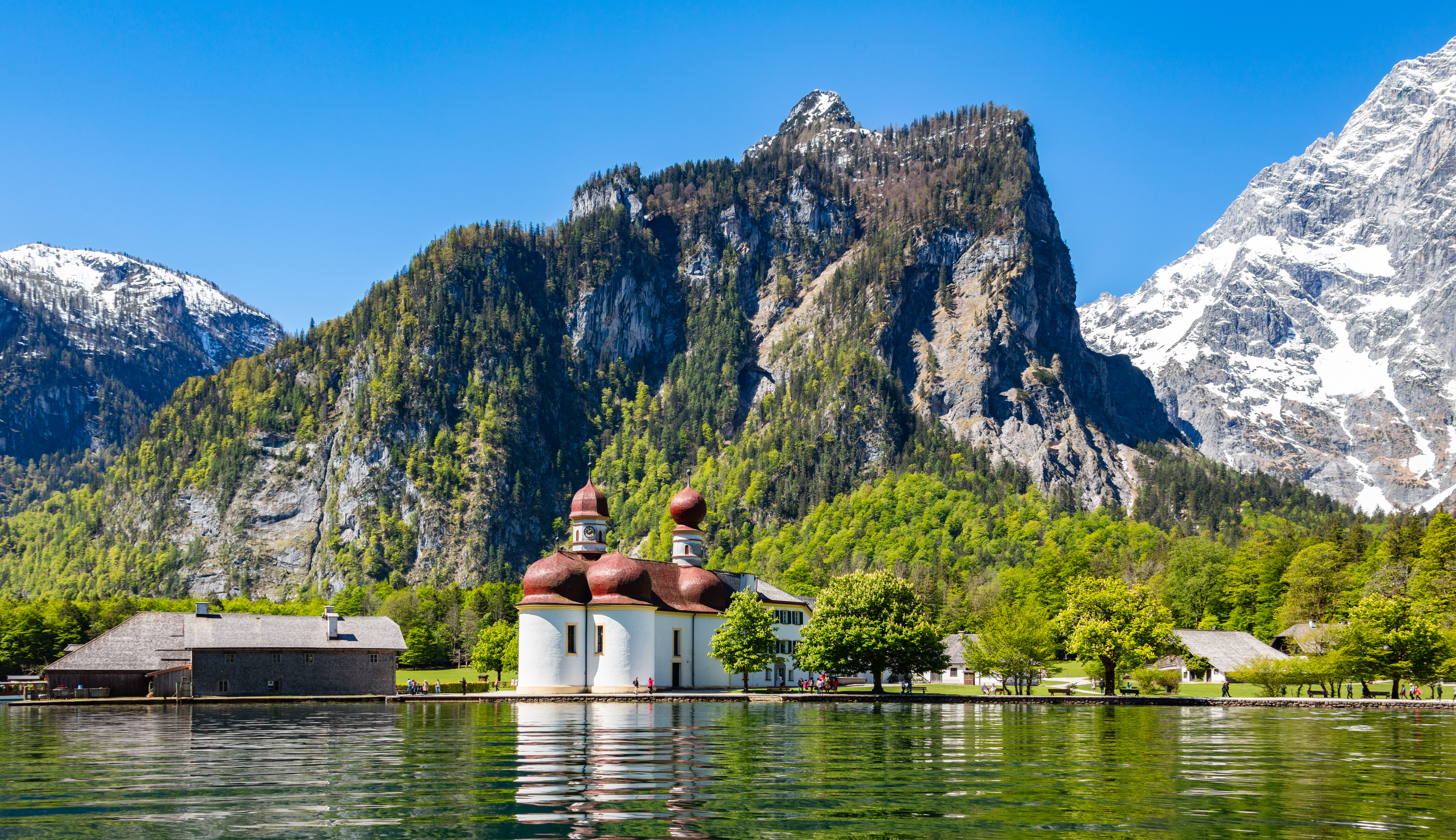 St. Bartholomew's Church, Königssee, Germany